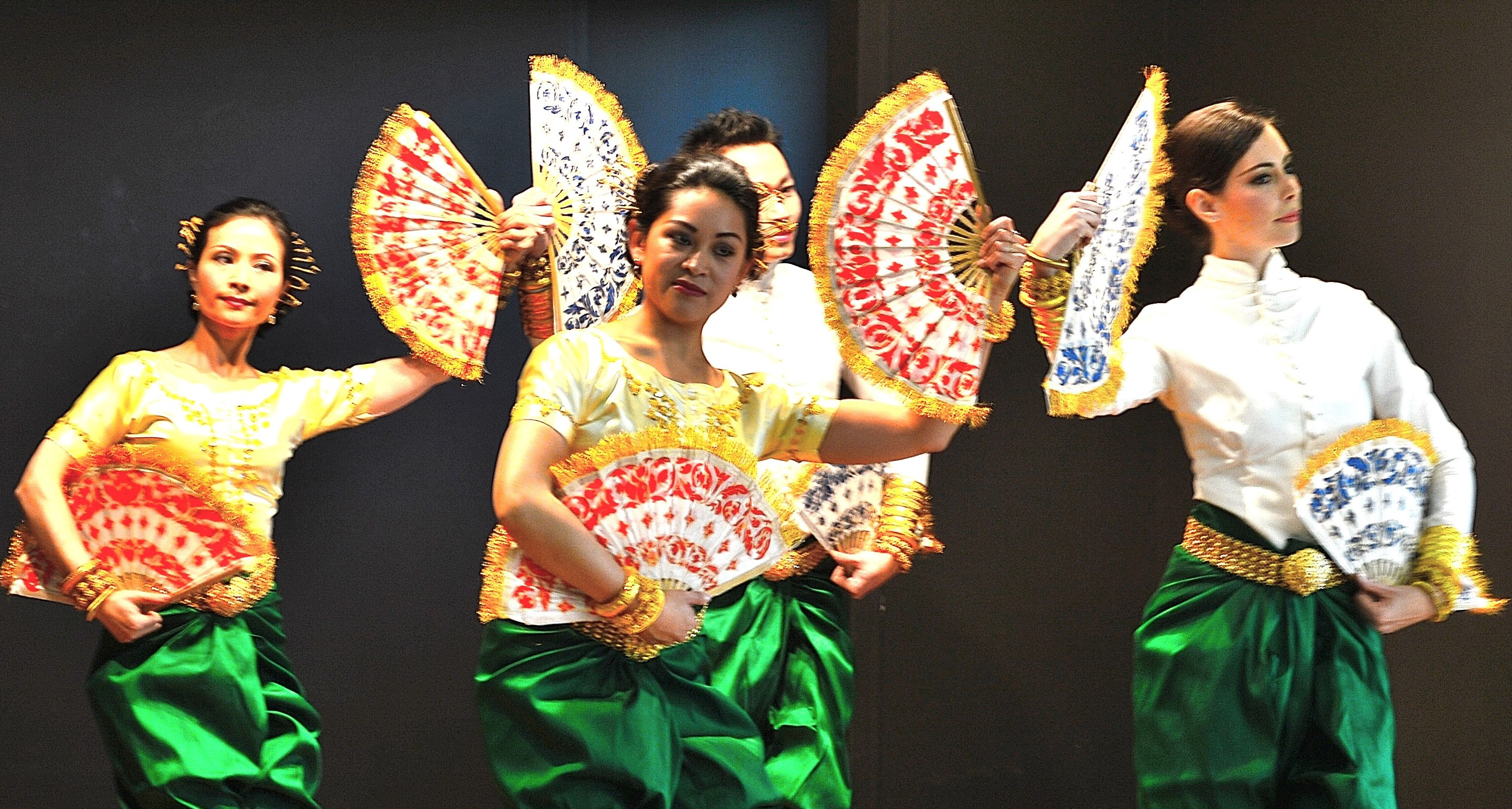 Chaul Chnam Thmey, or New Years day in the Khmer language. This picture is taken for a group of dancers performing the traditional Cambodian dance at the Maison de Cambodge CIUP, an event eagerly anticipated every year on campus. Usually the holiday lasts for three days beginning on New Year's Day, which usually falls on April 13 or 14th, which is the end of the harvesting season, when farmers enjoy the fruits of their labor before the rainy season begins. The Khmer New Year coincides with the traditional solar new year in several parts of India, Myanmar, Thailand and SriLanka.